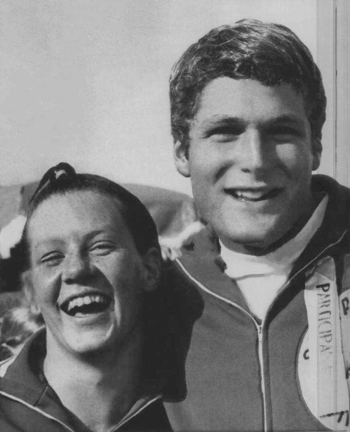 1968 Press Photo Claudia Kolb and Greg Buckingham set record in swimming race